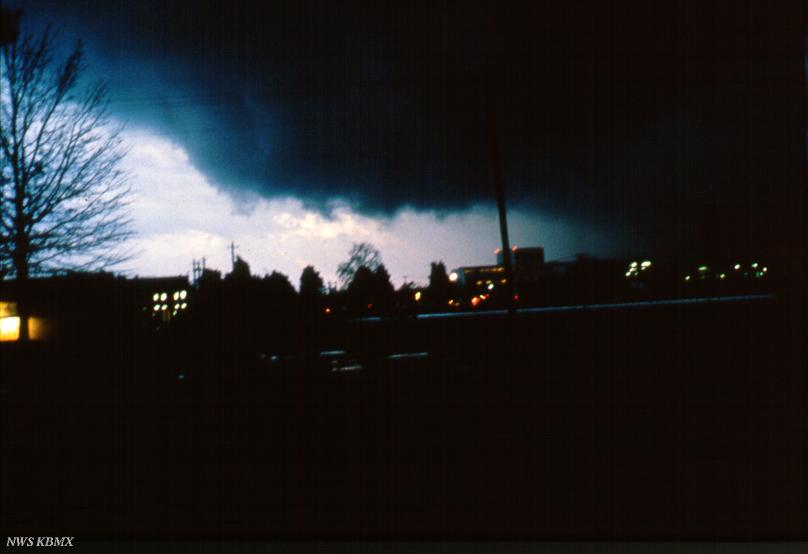 A wall cloud over the Huntsville Police Academy foreshadowed much destruction to come.